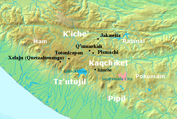 Map of the southern Guatemala highlands in the postclassic period. With sites of the Mayan and Quichean Civilizations.